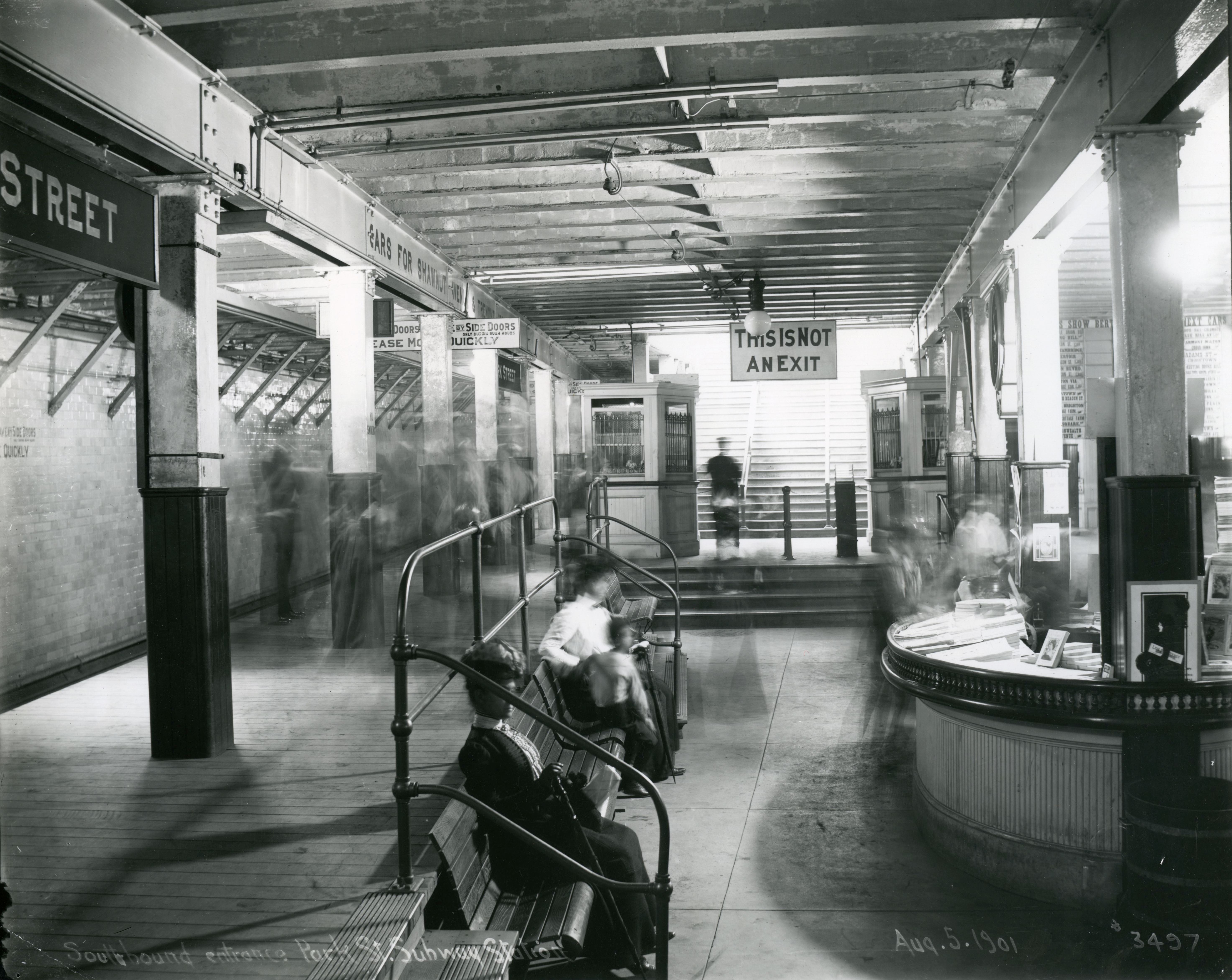 The southbound platform at Park Street in August 1901. The wooden high-level platform for Elevated trains is at left.